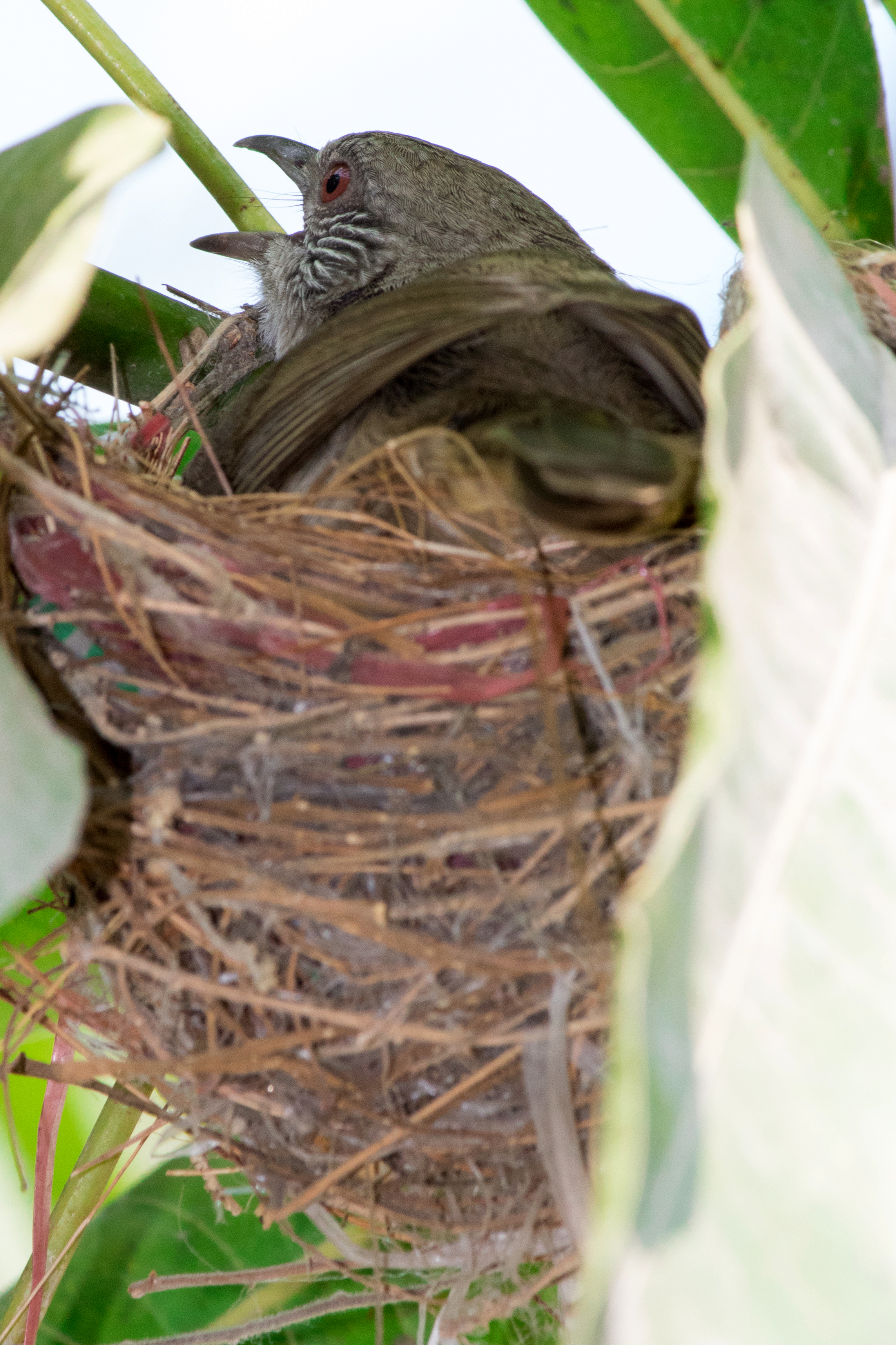 Mother bird on her nest.